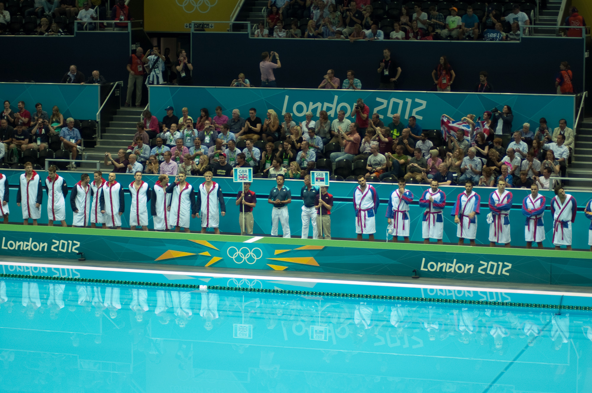 GB v Serbia line up at the water polo.